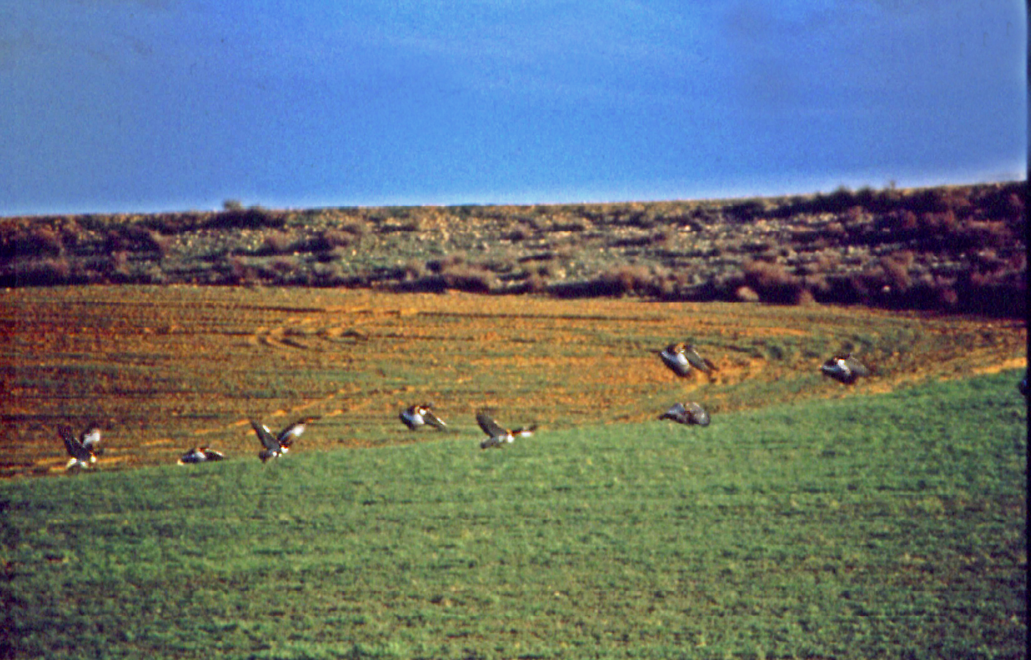 Great bustards in the fields of Castile (Alaejos, Valladolid, Spain)